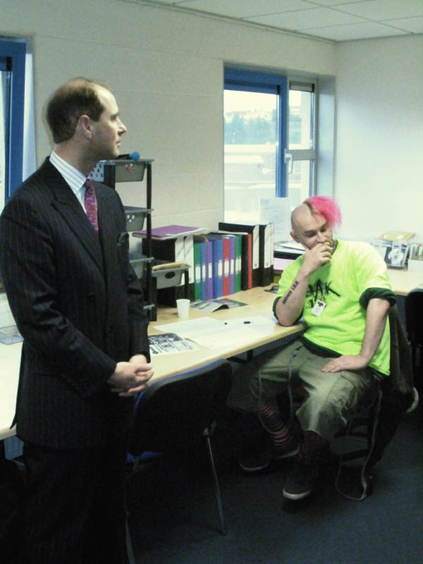 HRH Prince Edward with Nick J Townsend at M.A.S. Records in Kidderminster, Feb, 2004